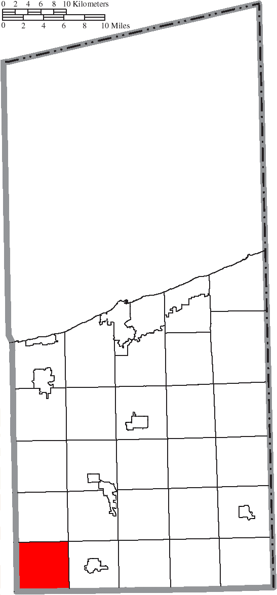 Map of the municipal and township boundaries of Ashtabula County, Ohio, United States, as of the 2000 census, with the location of Windsor Township highlighted. Township borders are shown only in unincorporated areas in order to differentiate incorporated and unincorporated areas more clearly.